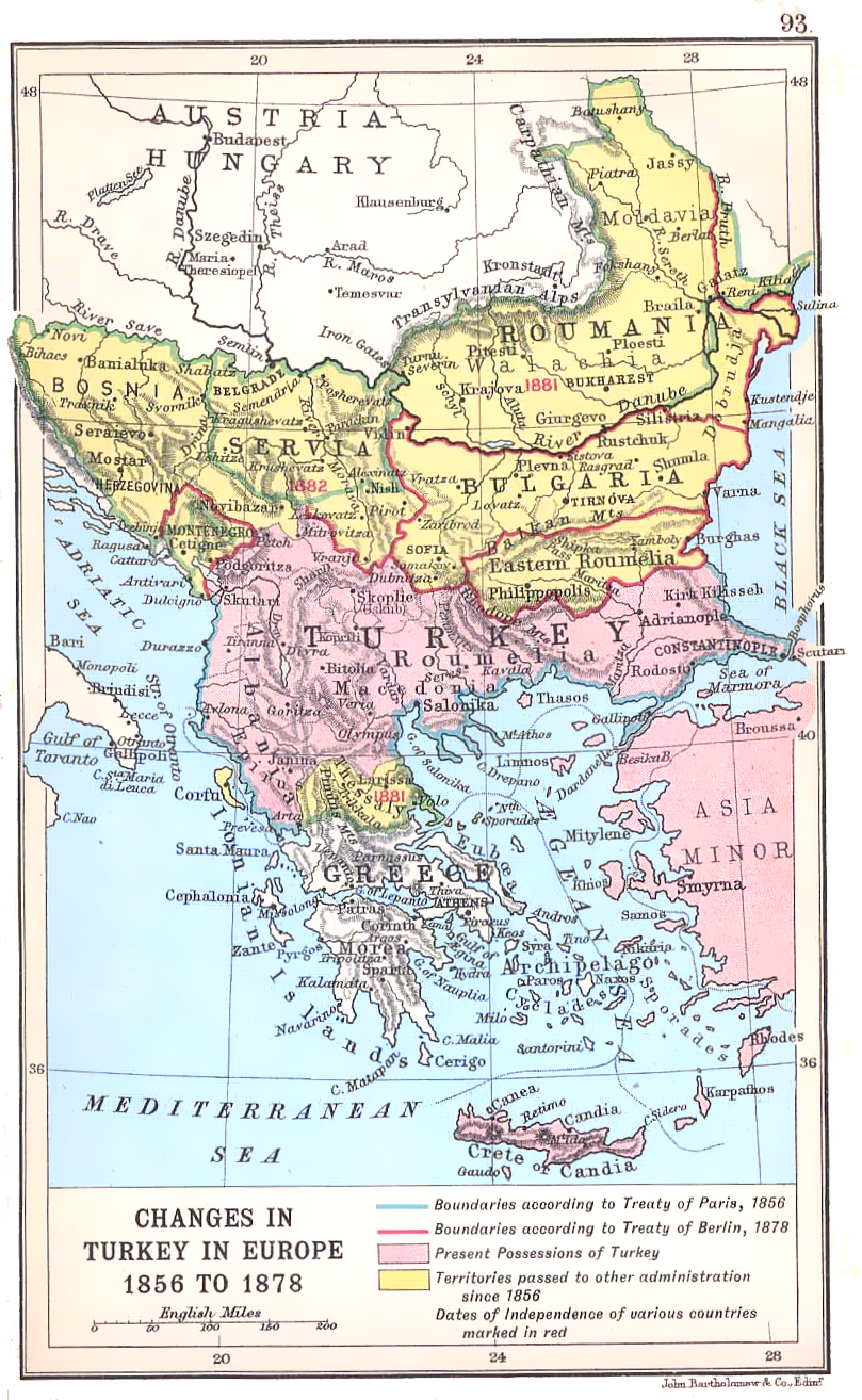 "Changes in Turkey-in-Europe 1856 to 1878", map showing the territorial changes in the Balkans between the Crimean War and Serbian–Ottoman War (1876–78). Work by J. G. Bartholomew dating to 1912.